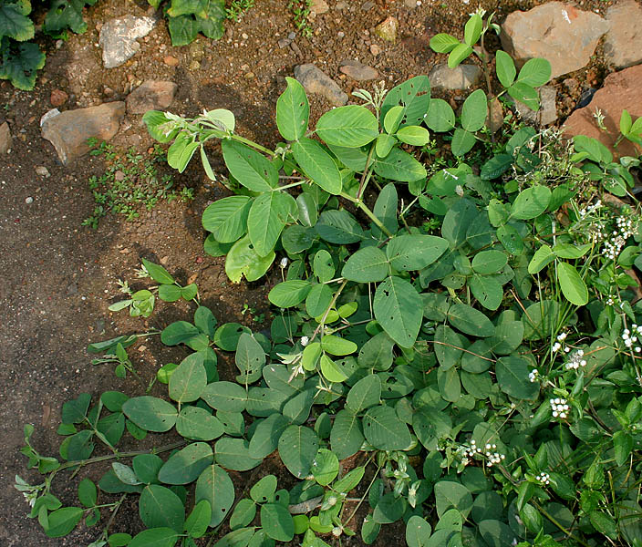 Desmodium dichotomum (Willd.) DC. in Rangareddy district of Andhra Pradesh, India.